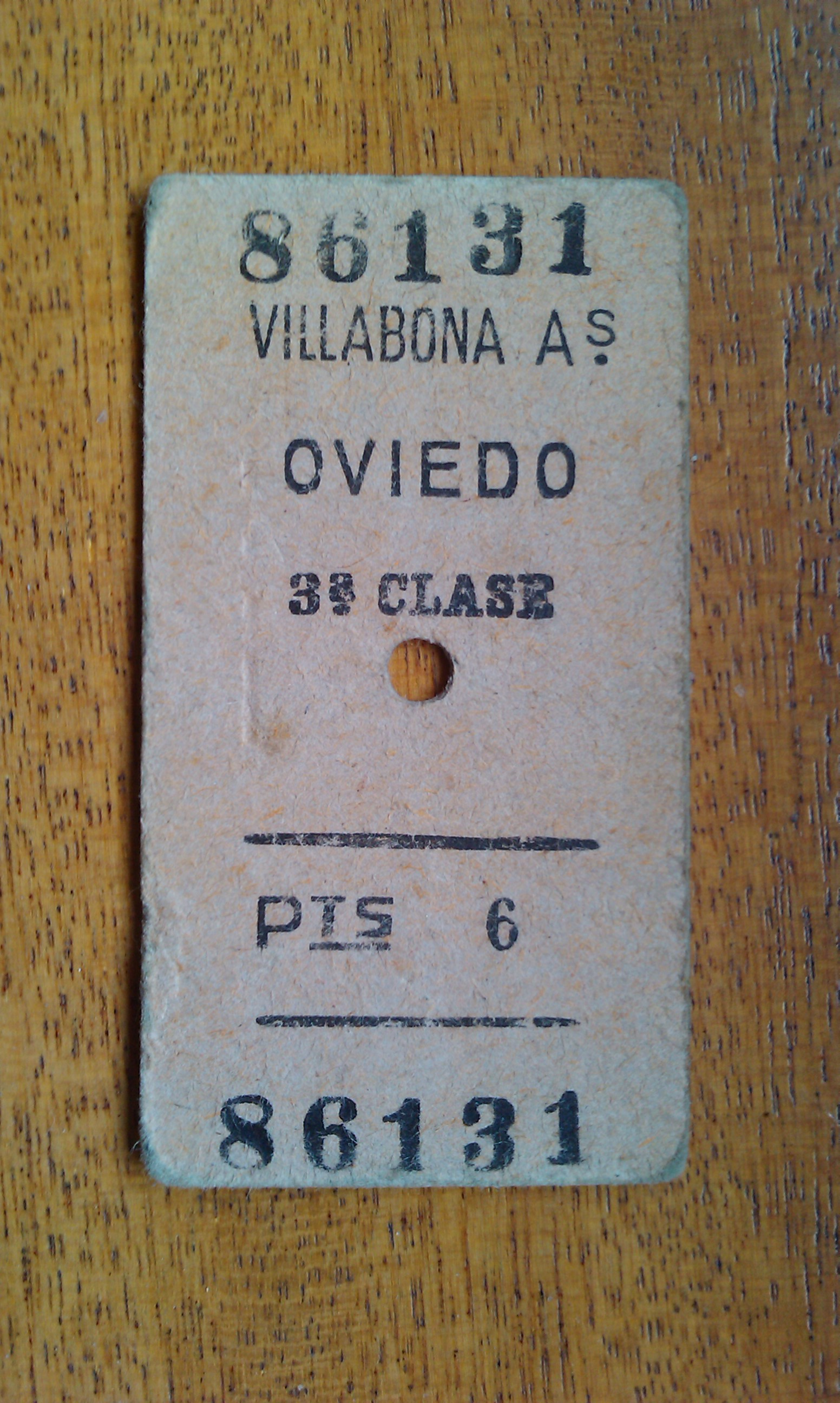 Railway Ticket from Villabona de Asturias to Oviedo